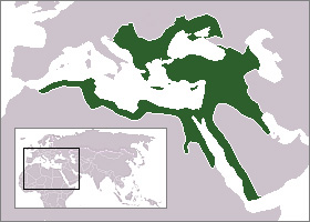 Map of the Ottoman Empire in 1683 — in Europe, Western Asia, and Northern Africa.